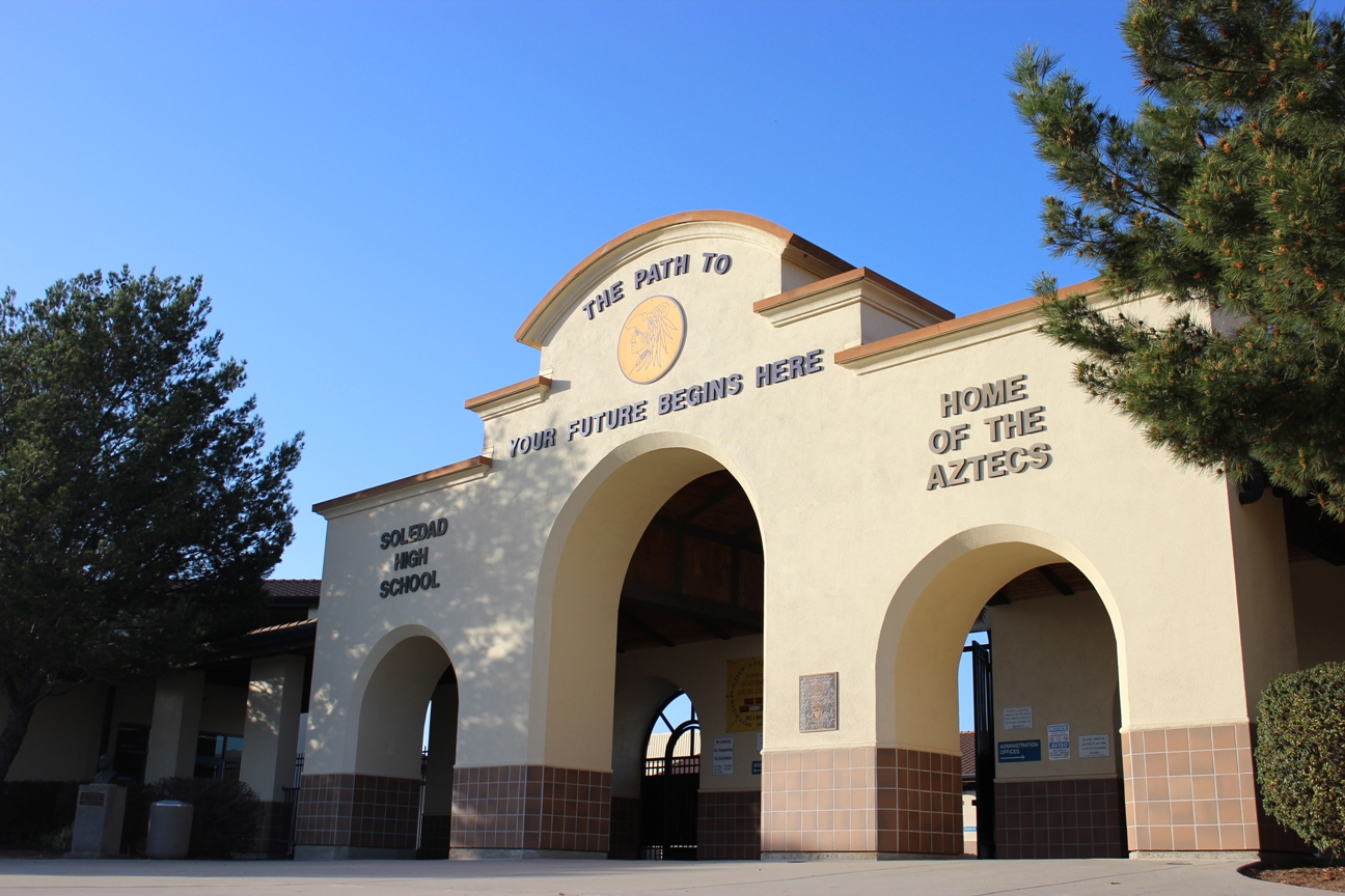 Alumni Contribution